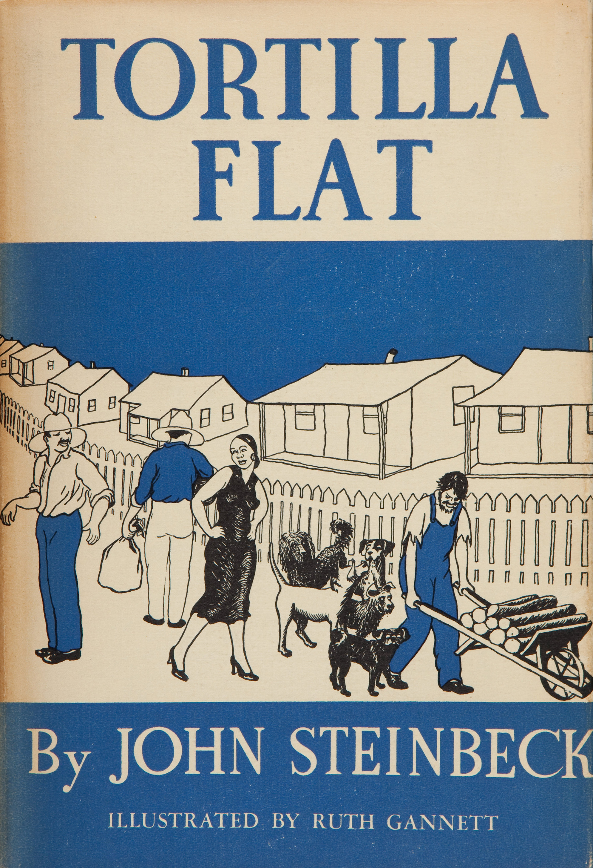 First-edition dust jacket cover of Tortilla Flat (1935) by the American author John Steinbeck.